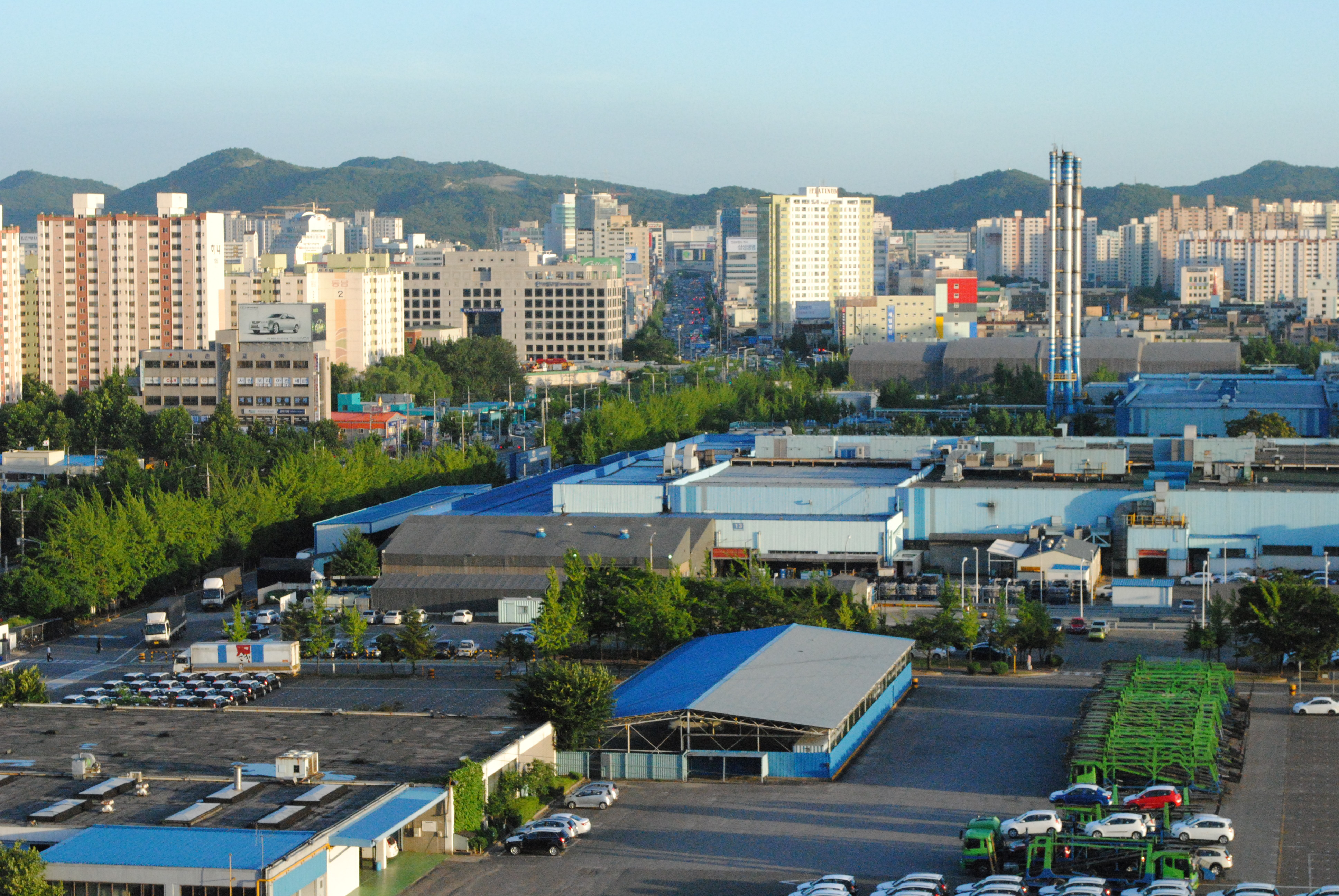 The image of Bupyeong-gu, Incheon, Korea. GM Daewoo car factory is shown closely, the middle left is Bupyeong-gu office, and the far view of road end is Bupyeong matro station.